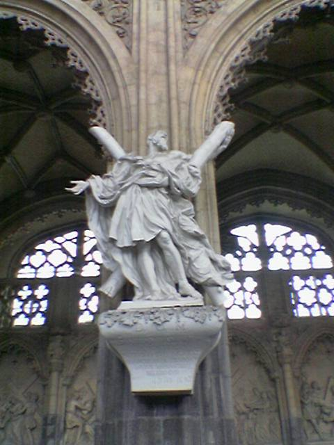 Statue of St. Andrew by Arnold de Hontoire (1690), St. James Church, LIEGE, BELGIUM